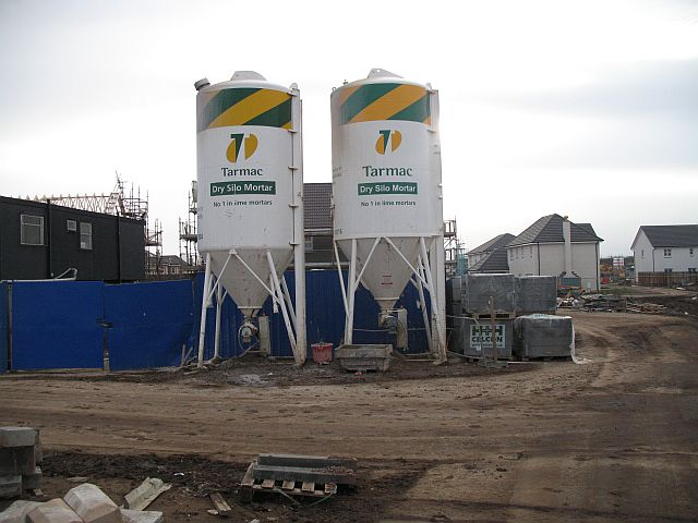 Mortar silos, Windygoul Supplying the vast new housing development on the southern edge of Tranent.